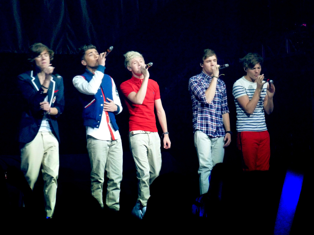 One Direction, February 2012